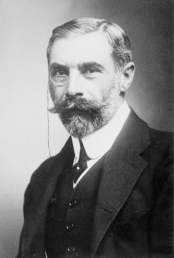 Bain News Service,, publisher. C. M. Marling [between ca. 1910 and ca. 1915] 1 negative : glass ; 5 x 7 in. or smaller. Notes: Title from unverified data provided by the Bain News Service on the negatives or caption cards. Forms part of: George Grantham Bain Collection (Library of Congress). Format: Glass negatives. Repository: Library of Congress, Prints and Photographs Division, Washington, D.C. 20540 USA, General information about the Bain Collection is available at Persistent URL: Call Number: LC-B2- 2990-11